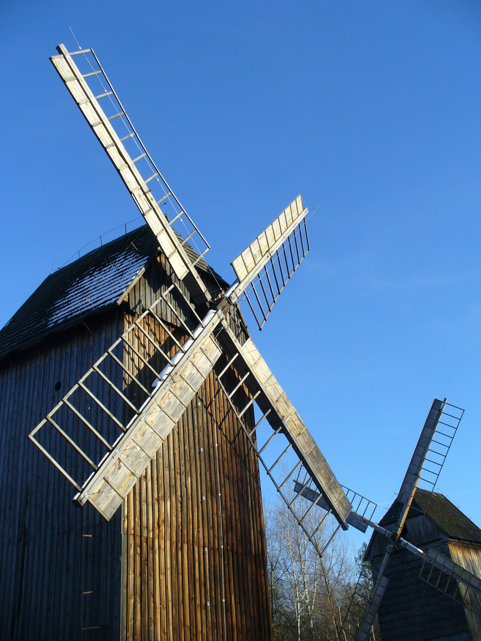 Two windmills in Opole Village Museum.